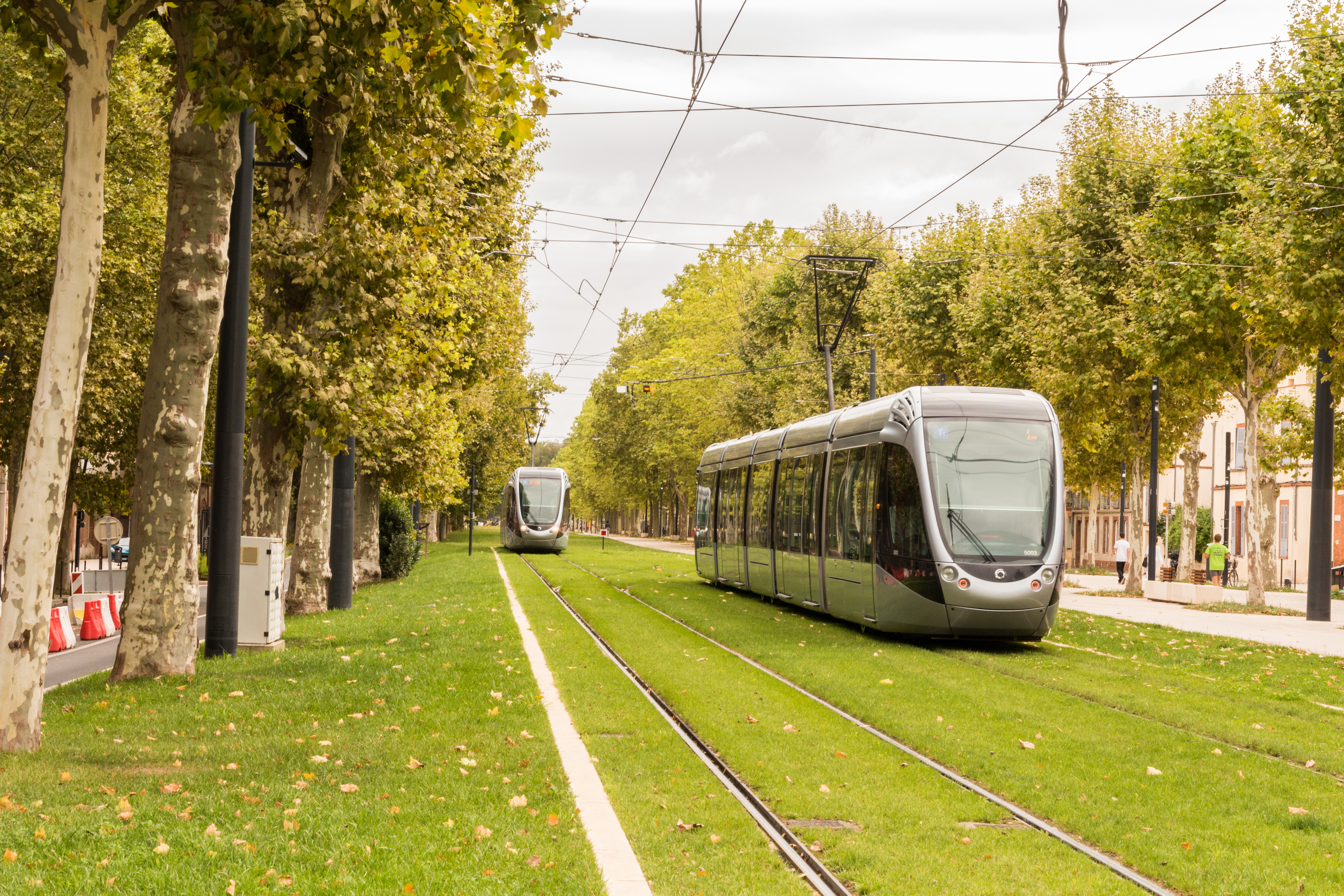 Toulouse, 24 août 2015. Tramways au terminus, Allées Jules Guesde